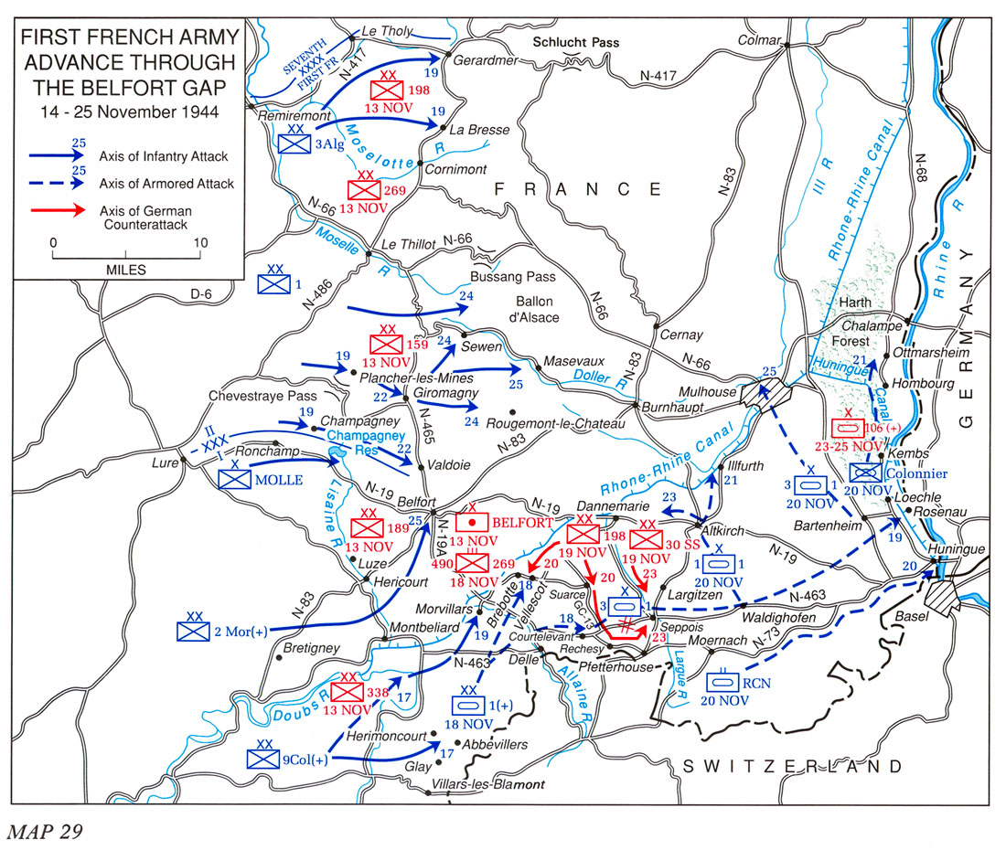 French forces were first to reach the Rhine in 1944